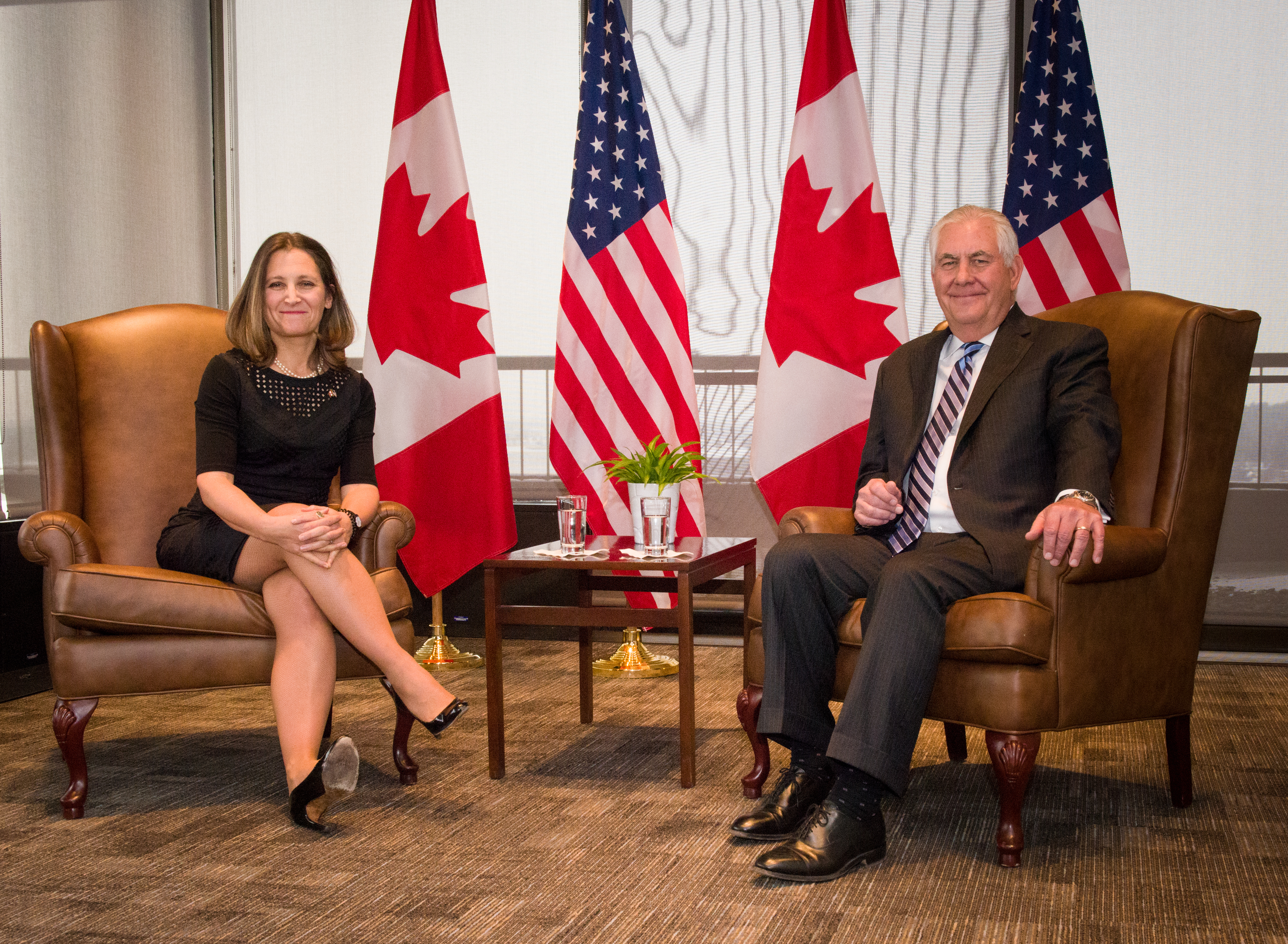 U.S. Secretary of State Rex Tillerson meets with Canadian Foreign Minister Chrystia Freeland at the Global Affairs in Ottawa, Canada.